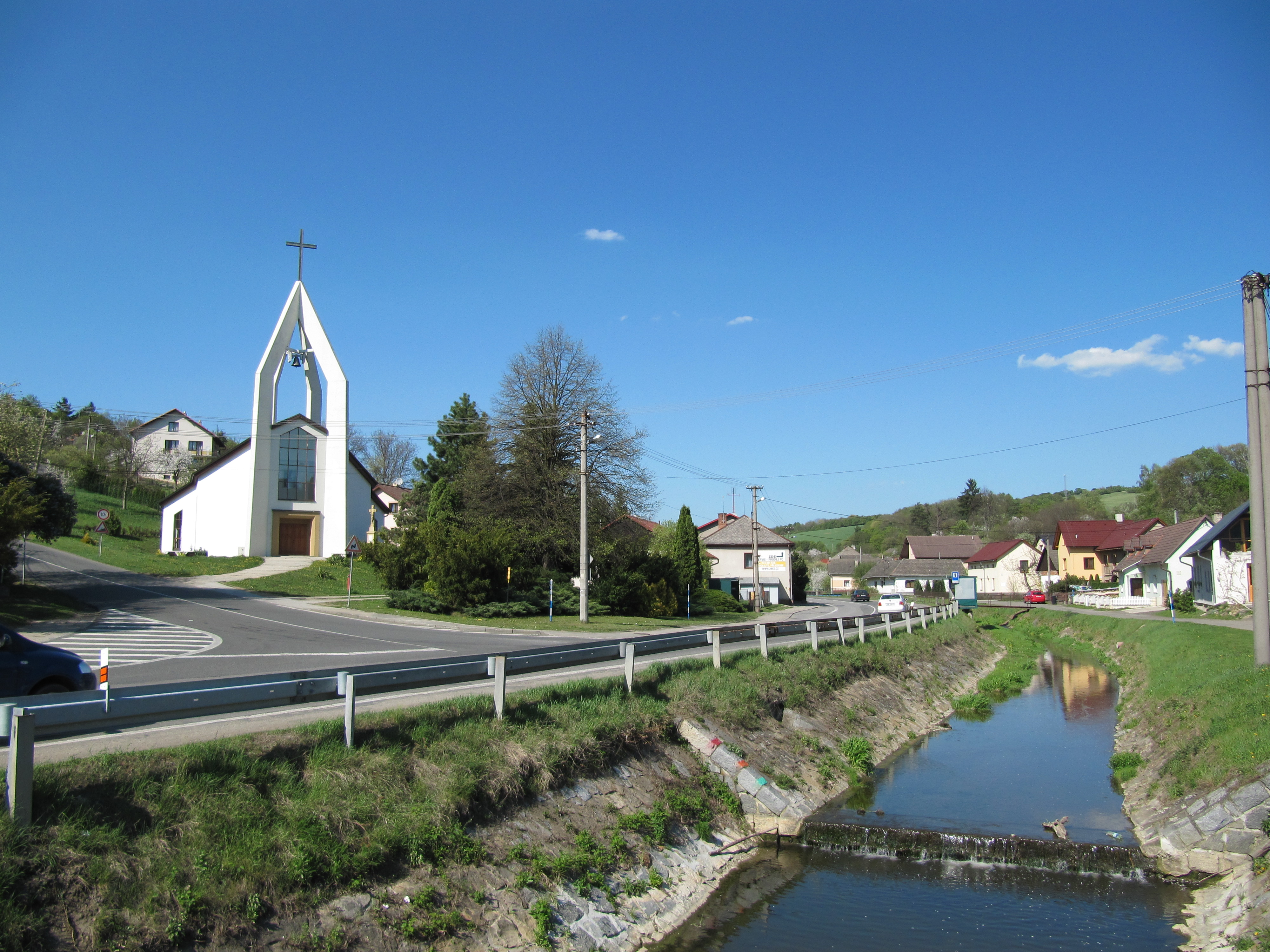 Bohuslavice u Zlína in Zlín District, Czech Republic. Main road, direction Zlín, Březnice river and the chapel of the Visitation.